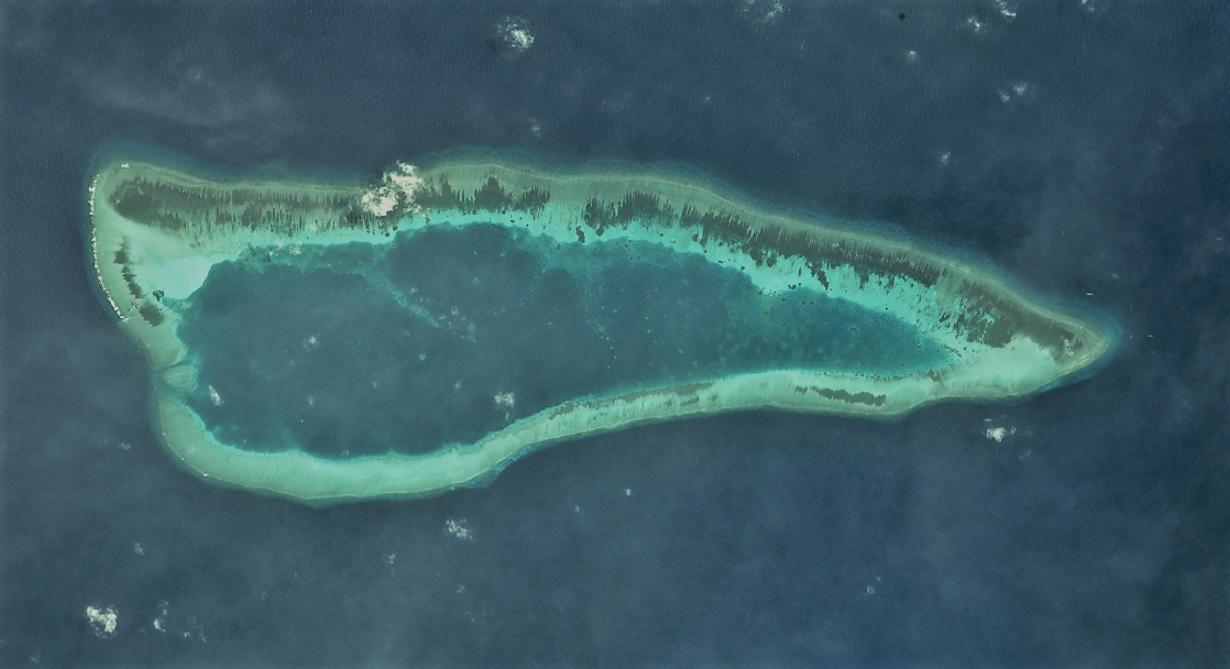 East London Reef is an atoll of Spratly Islands.